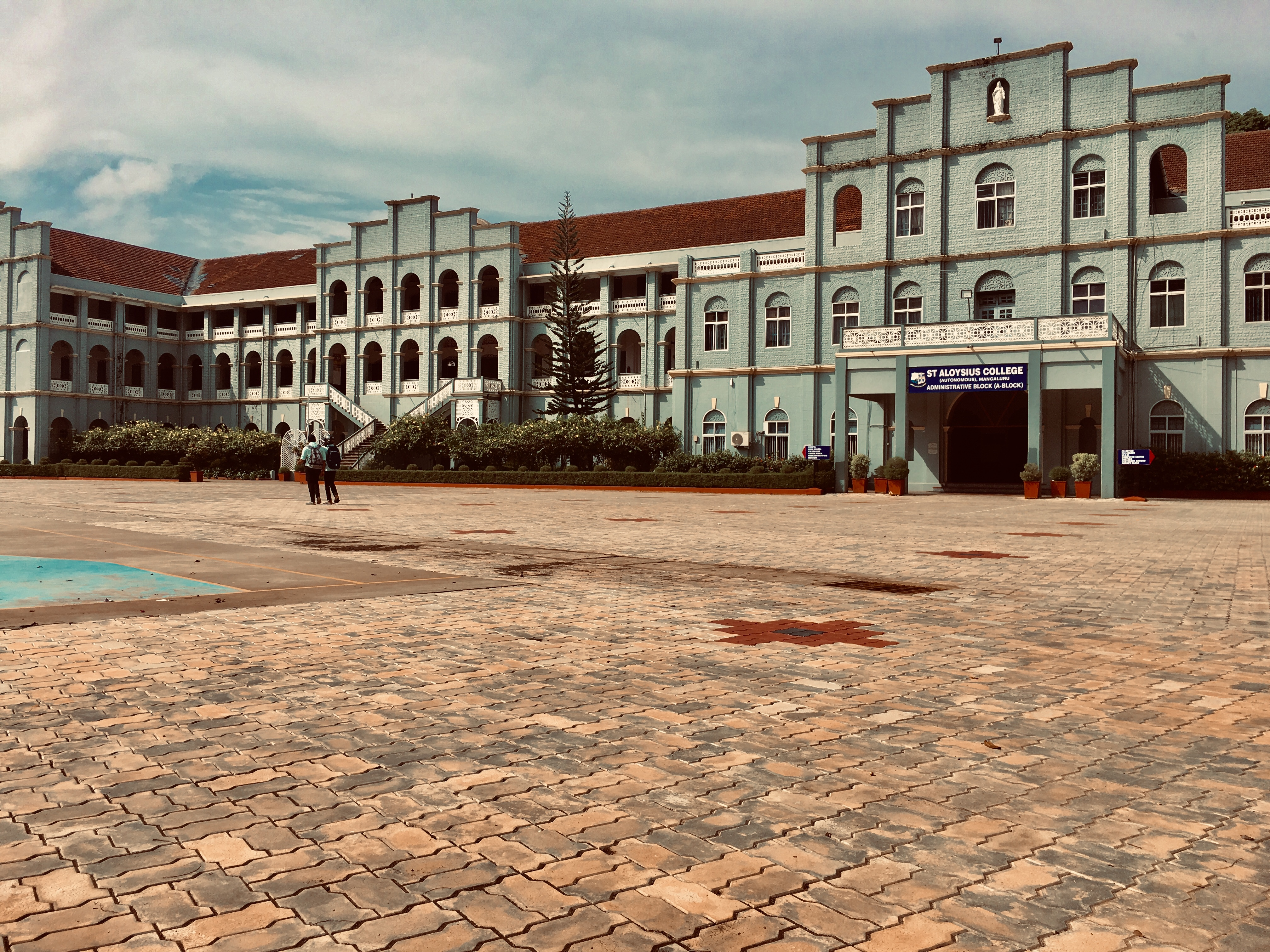 St aloysius college